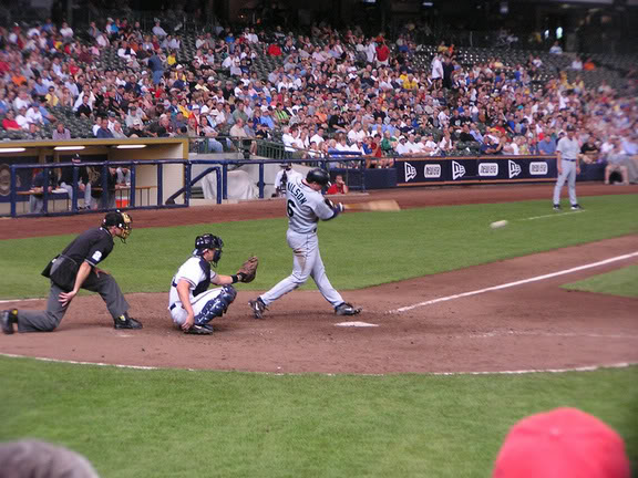 Dan Wilson grounds to short in the top of the 8th inning at Miller Park, June 17, 2004.